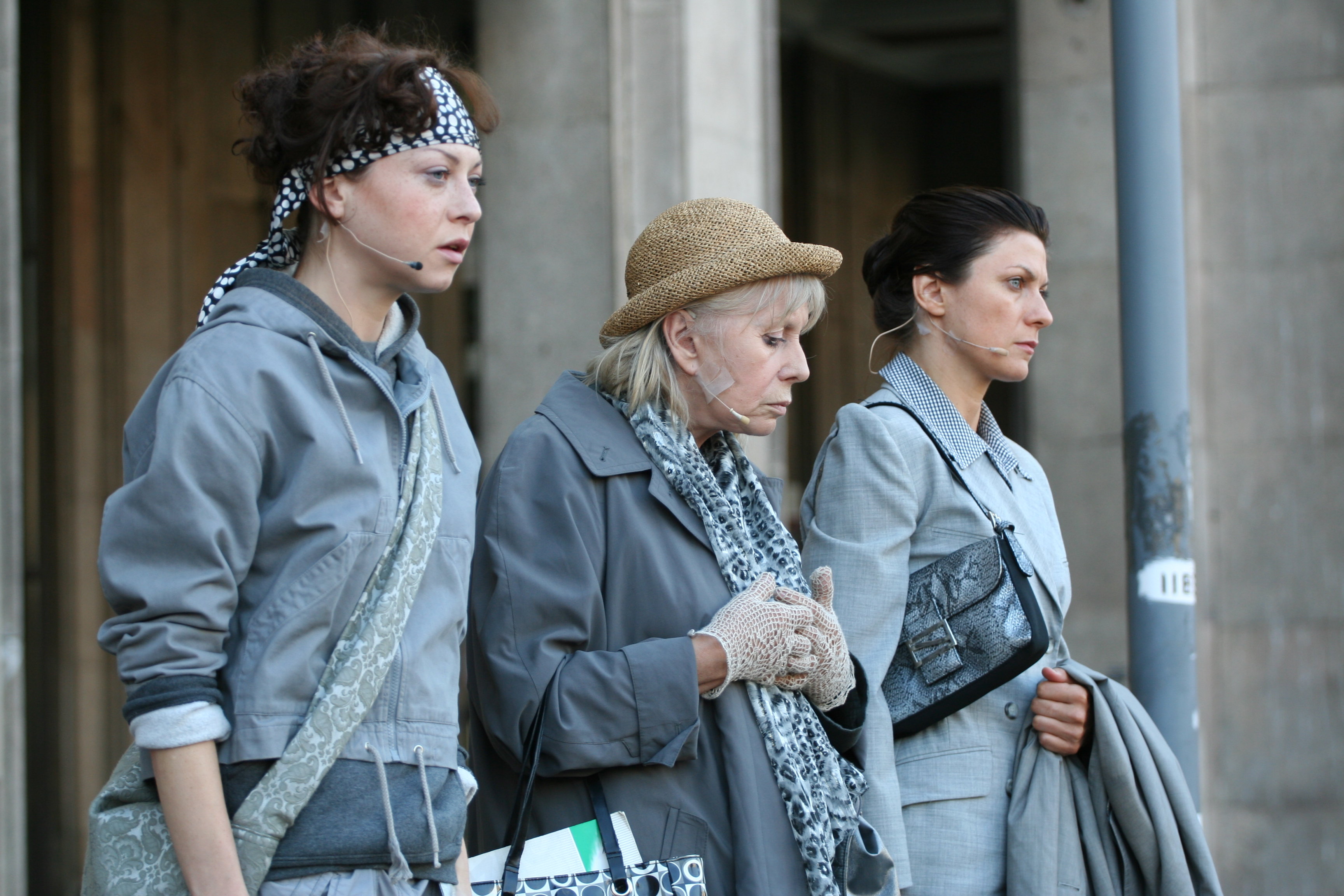 Barbara Wrzesińska, Małgorzata Zawadzka and Katarzyna Maternowska playing "Complaints on Constitution Square" in Warsaw on Constituion Square in front of Polonia Theatre.